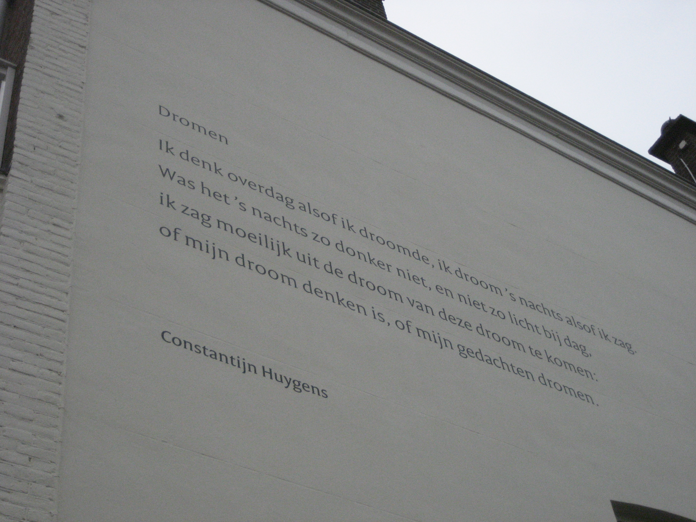 Wall poem Dromen by Constantijn Huygens in Den Haag (the Netherlands). Corner Atjehstraat & Bankastraat. Modern Dutch version by Frans Blom. Letter by Peter Verheul.